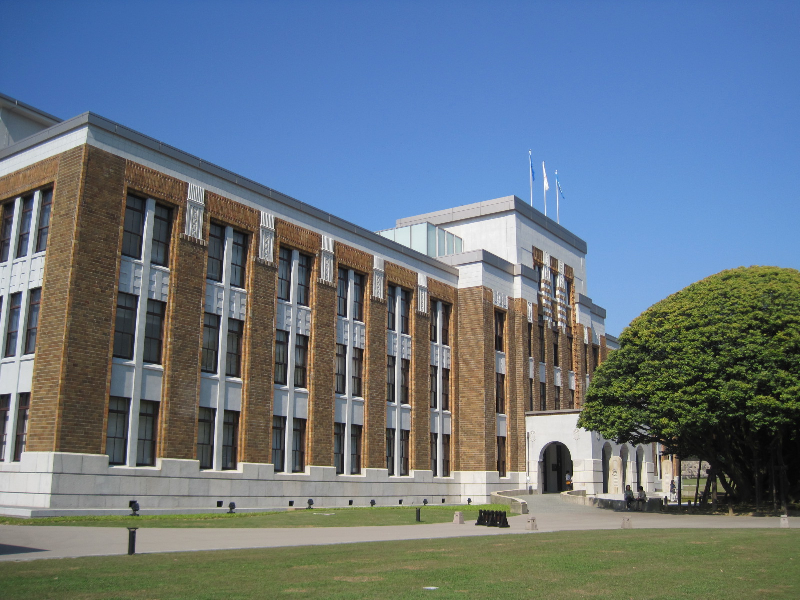 Shiinoki Cultural Complex, Ishikawa Prefecture(Kanazawa city, Ishikawa prefecture)